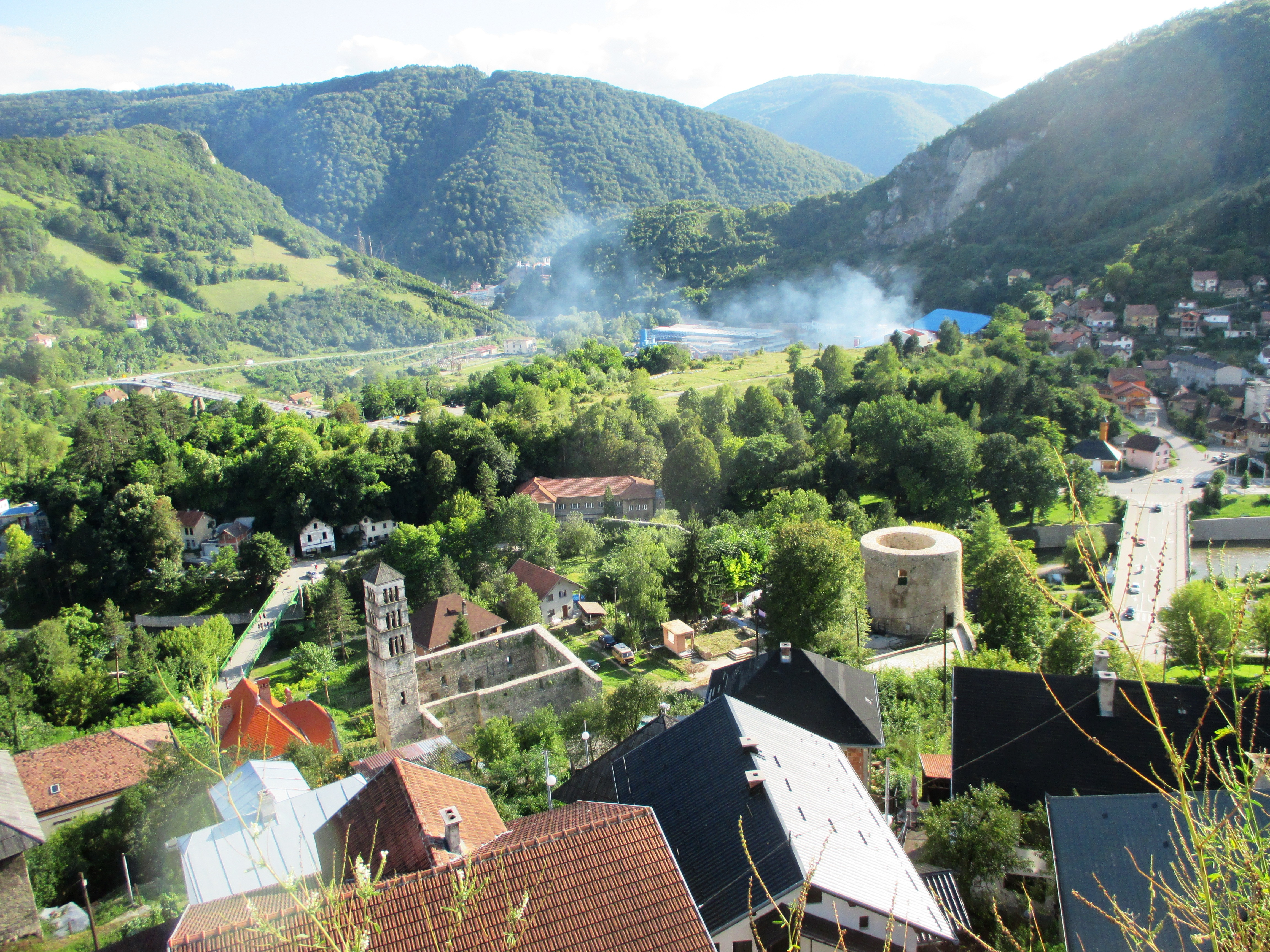 Jajce, southern panorama from the Fortress, with the St.Mary Church (crkva sv.Marije) and the Bear's Tower (Medvjed Kula)